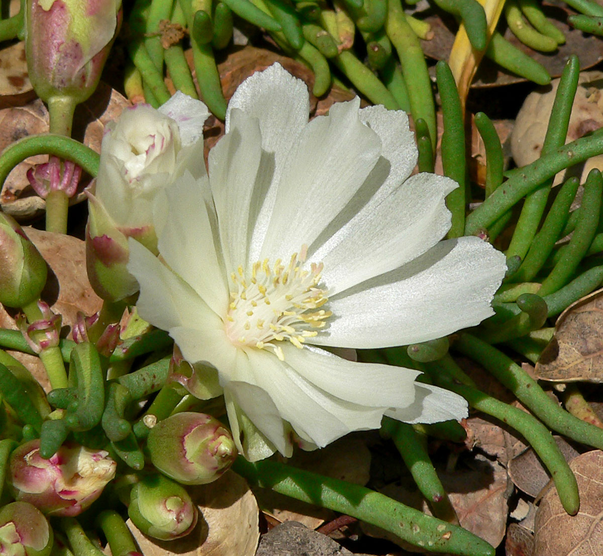 Lewisia rediviva at the University of California Botanical Garden, Berkeley, California